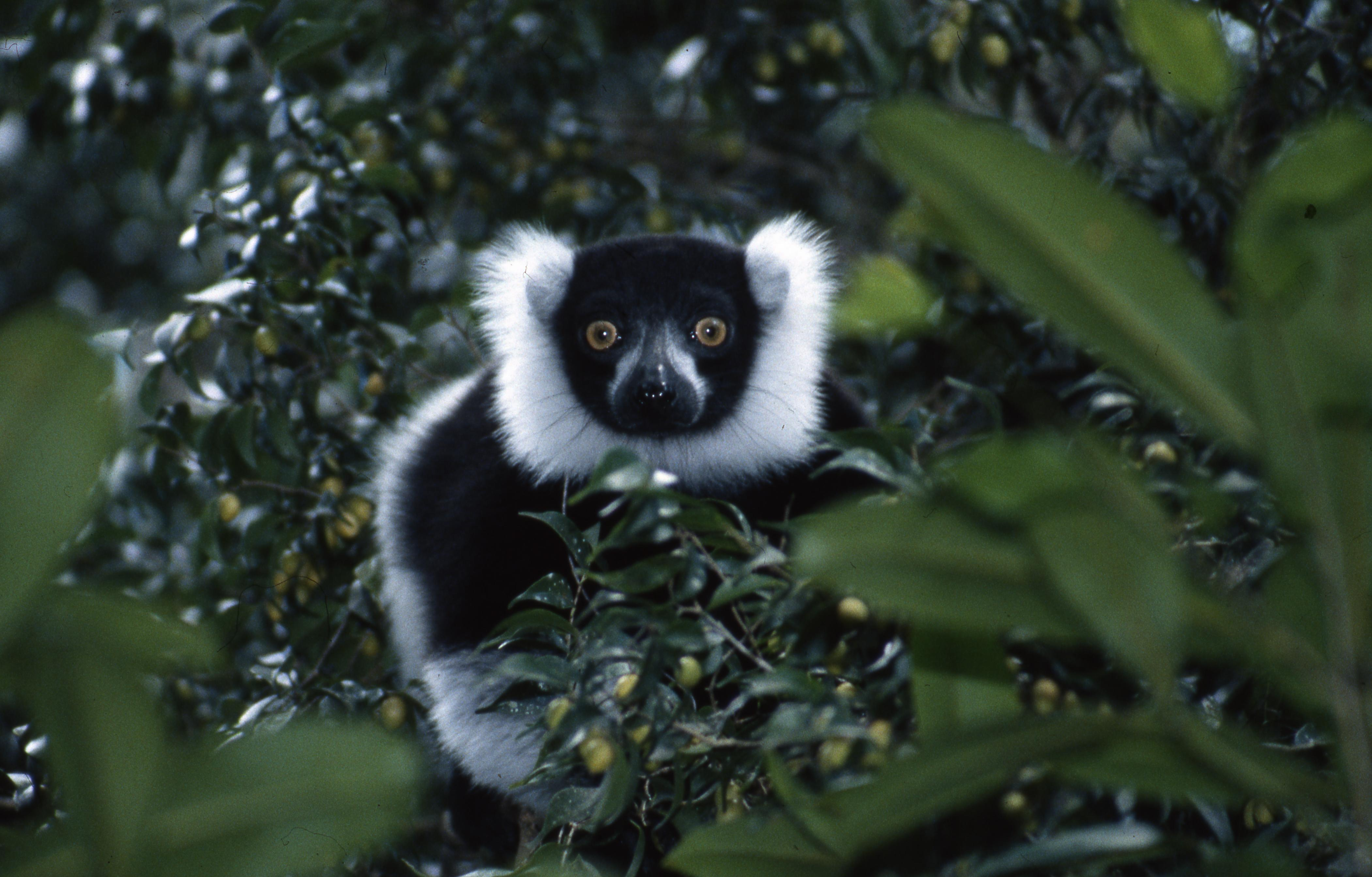 Black and White Ruffed Lemur (Varecia variegata) - Betampona Reserve, Madagascar